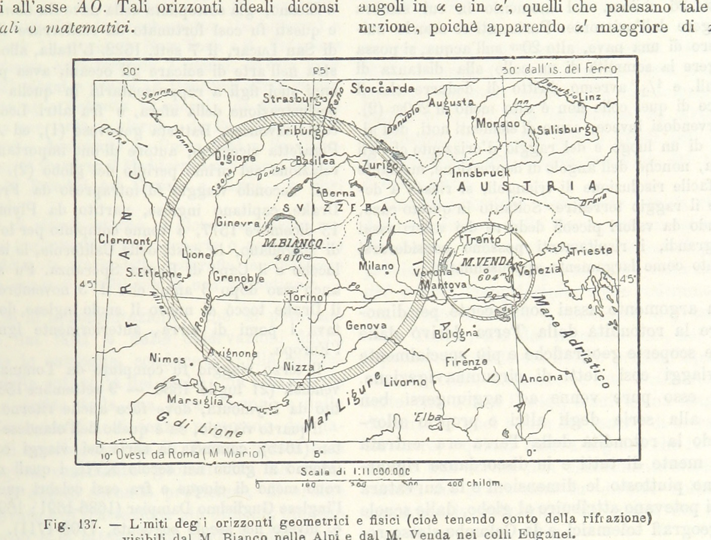 View this map on the BL Georeferencer service. Image taken from: Title: "La Terra, trattato popolare di geografia universale per G. Marinelli ed altri scienziati italiani, etc. [With illustrations and maps.]" Author: MARINELLI, Giovanni - Professor of Geography at Padua Shelfmark: "British Library HMNTS 10006.h.10." Volume: 01 Page: 195 Place of Publishing: Milano Date of Publishing: 1898 Issuance: monographic Identifier: 002383118 Explore: Find this item in the British Library catalogue, 'Explore'. Open the page in the British Library's itemViewer (page image 195) Download the PDF for this book Image found on book scan 195 (NB not a pagenumber)Download the OCR-derived text for this volume: (plain text) or (json) Click here to see all the illustrations in this book and click here to browse other illustrations published in books in the same year. Order a higher quality version from here.